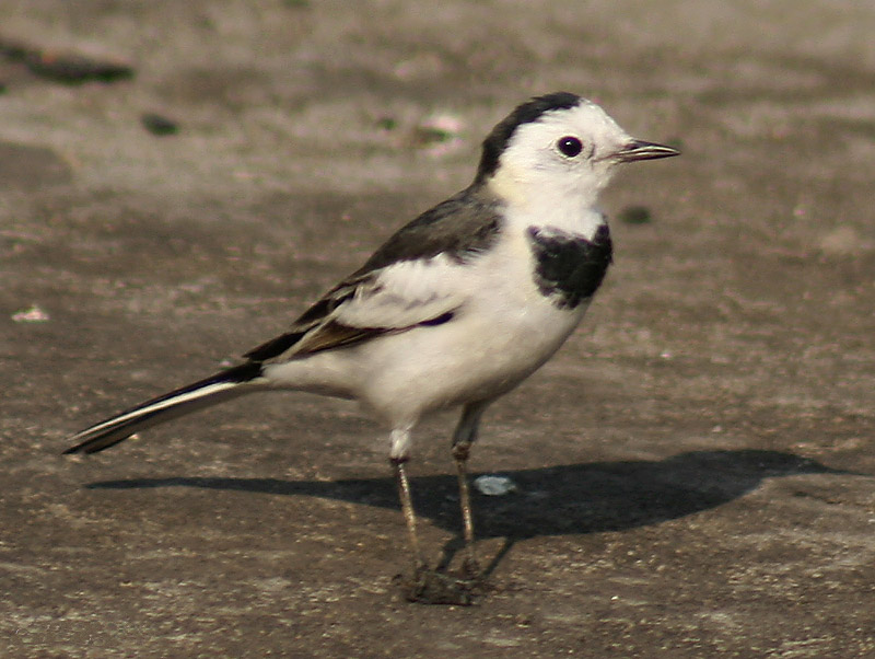 White Wagtail Motacilla alba in Kolkata, West Bengal, India.